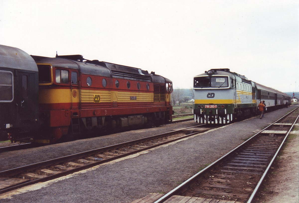 trains in Blatno u Jesenice, czech republic